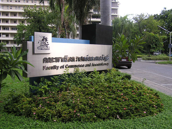 Faculty of Commerce and Accountancy , Chulalongkorn University